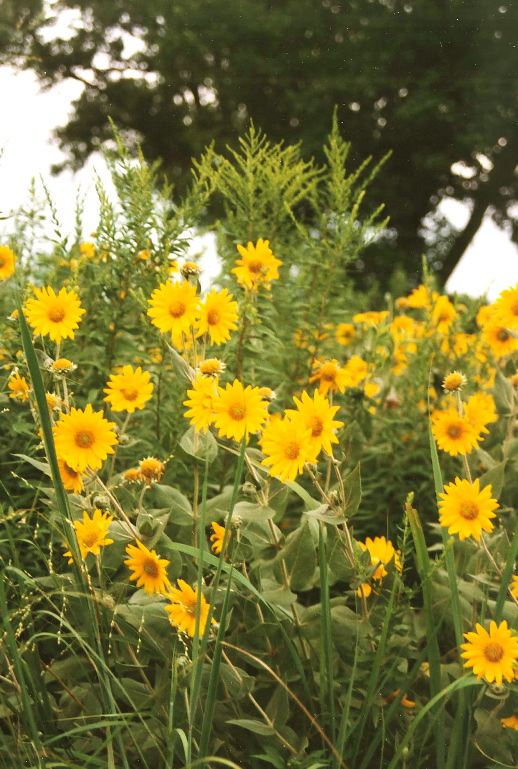 Rosinweed (Silphium integrifolium), Homestead National Monument of America, Gage County, Nebraska